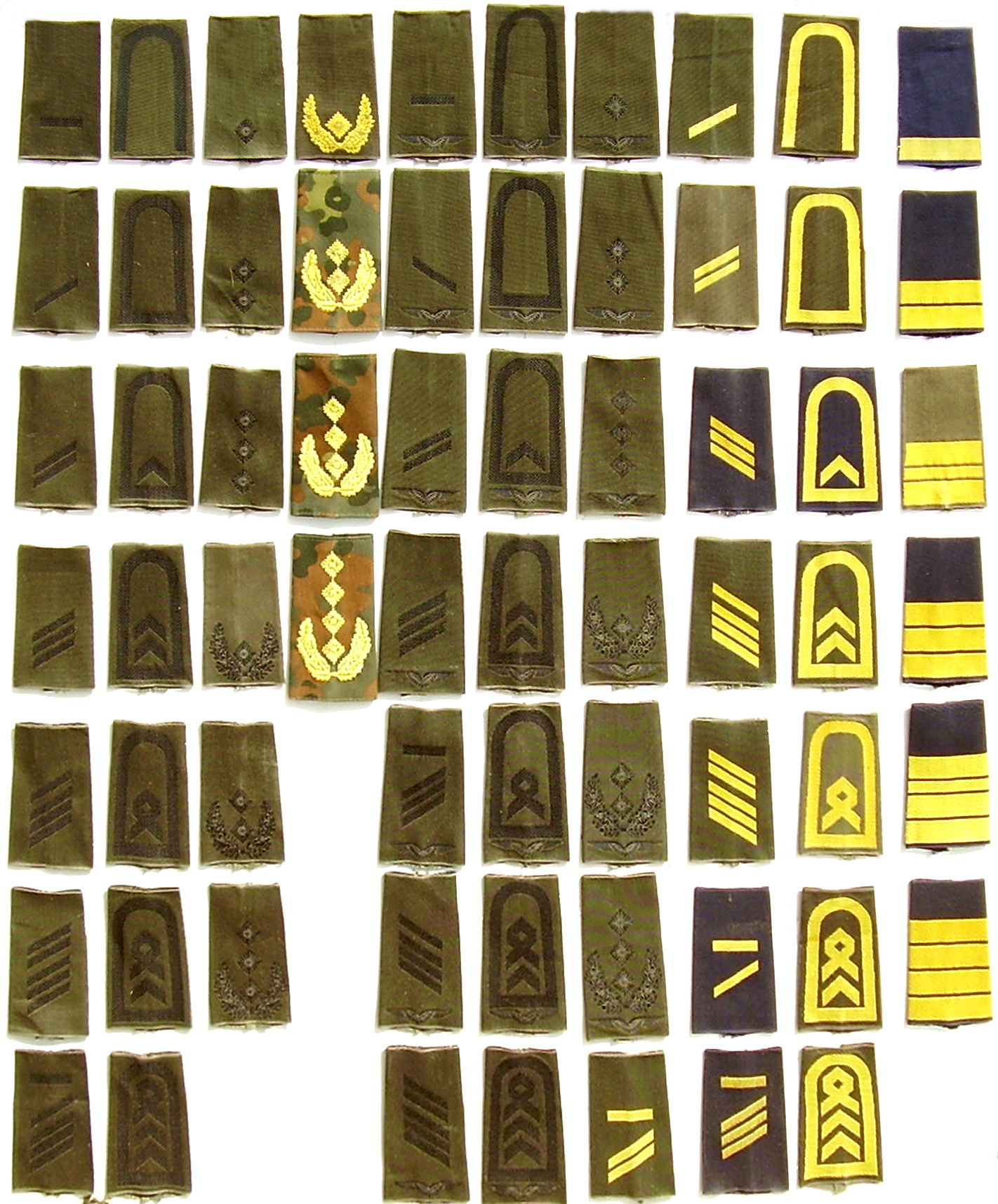 Bundeswehr Dienstgrad Tafel